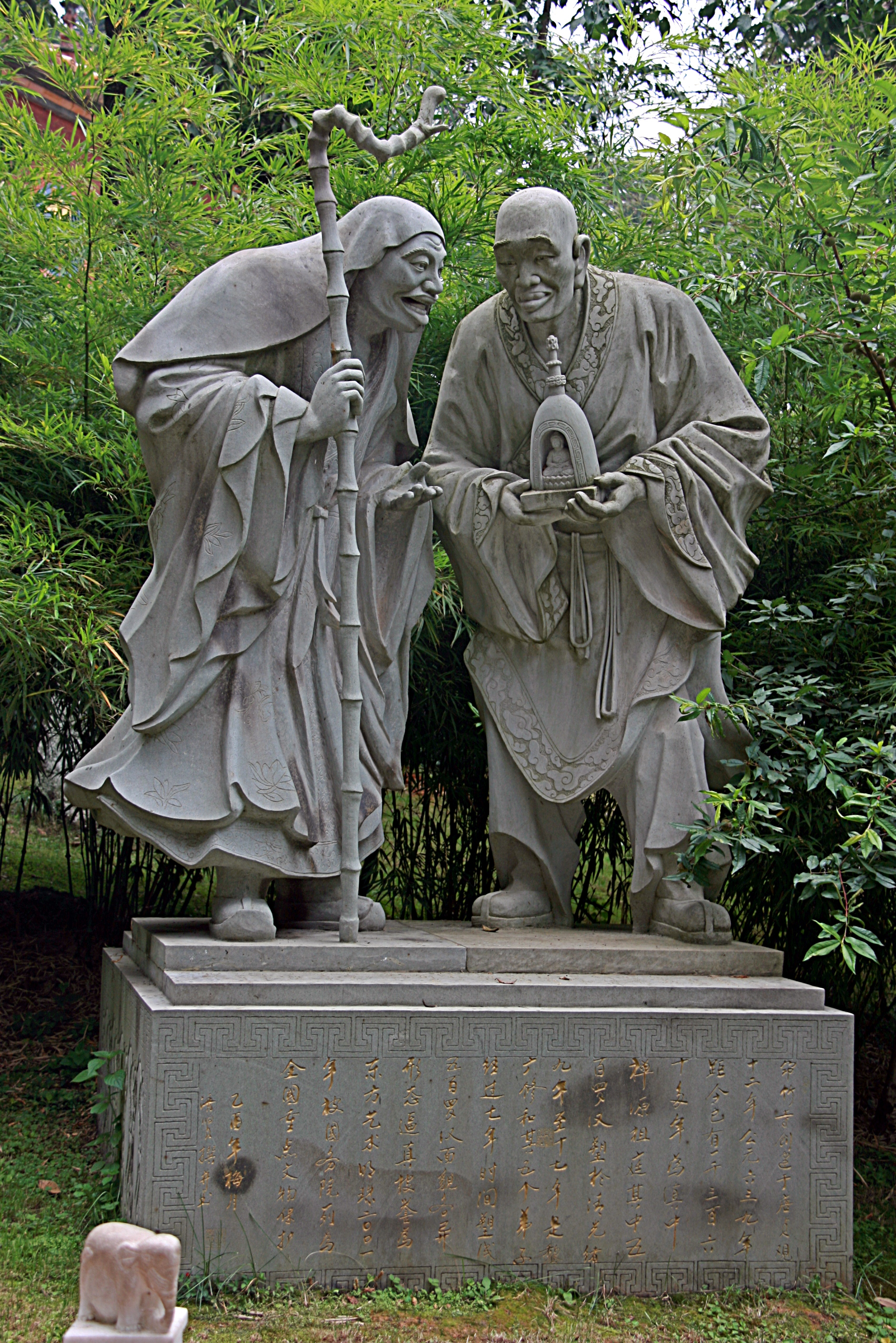 Photographs of a stone replica of two of the Lohan statues at the Qiongzhu Temple to the northwest of Kunming, Yunnan Province, China.